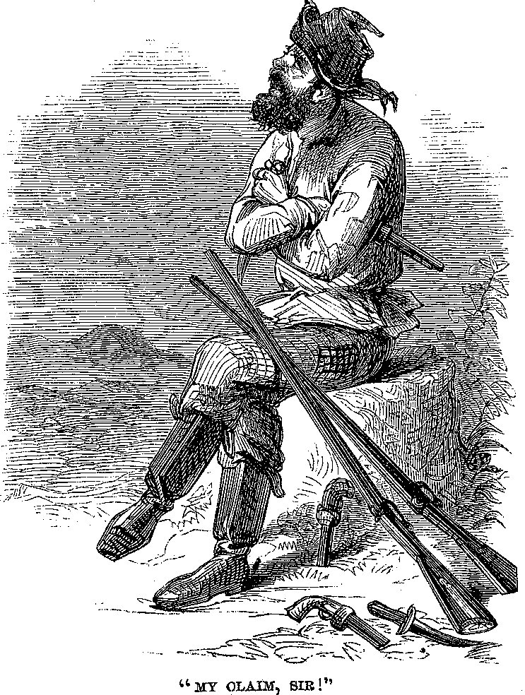 "'My Claim, Sir'", illustration of "A Peep at Washoe" by J. Ross Browne, in Harper's Monthly Magazine, January 1861